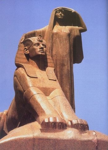 Egypt's Renaissance, 1919-28 by Egyptian sculptor Mahmoud Mokhtar (1891-1934) Cairo, Egypt